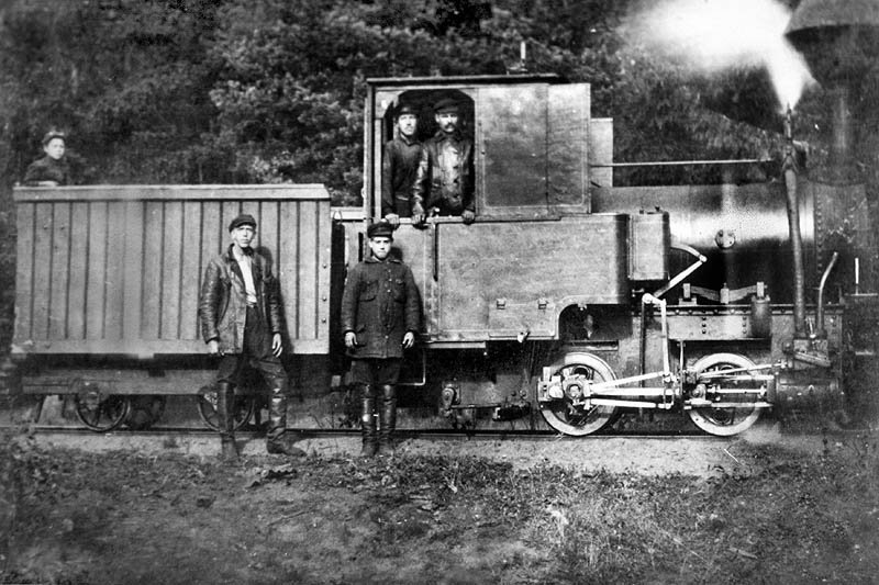 Steam locomotive "Krauss" on Sofrino RR, Russia